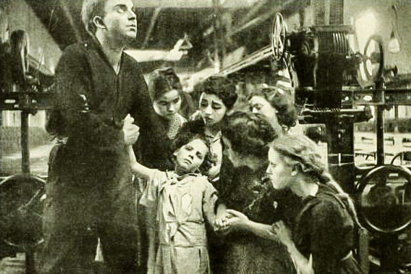 Film still in advertisement for 1912 Thanhouser production The Cry of the Children, published in The Moving Picture World (New York, N.Y.), April 27, 1912, p. 286; featured in image is child actress Marie Eline (center) as Alice in the film and James Cruze (left) as her mill-working father.